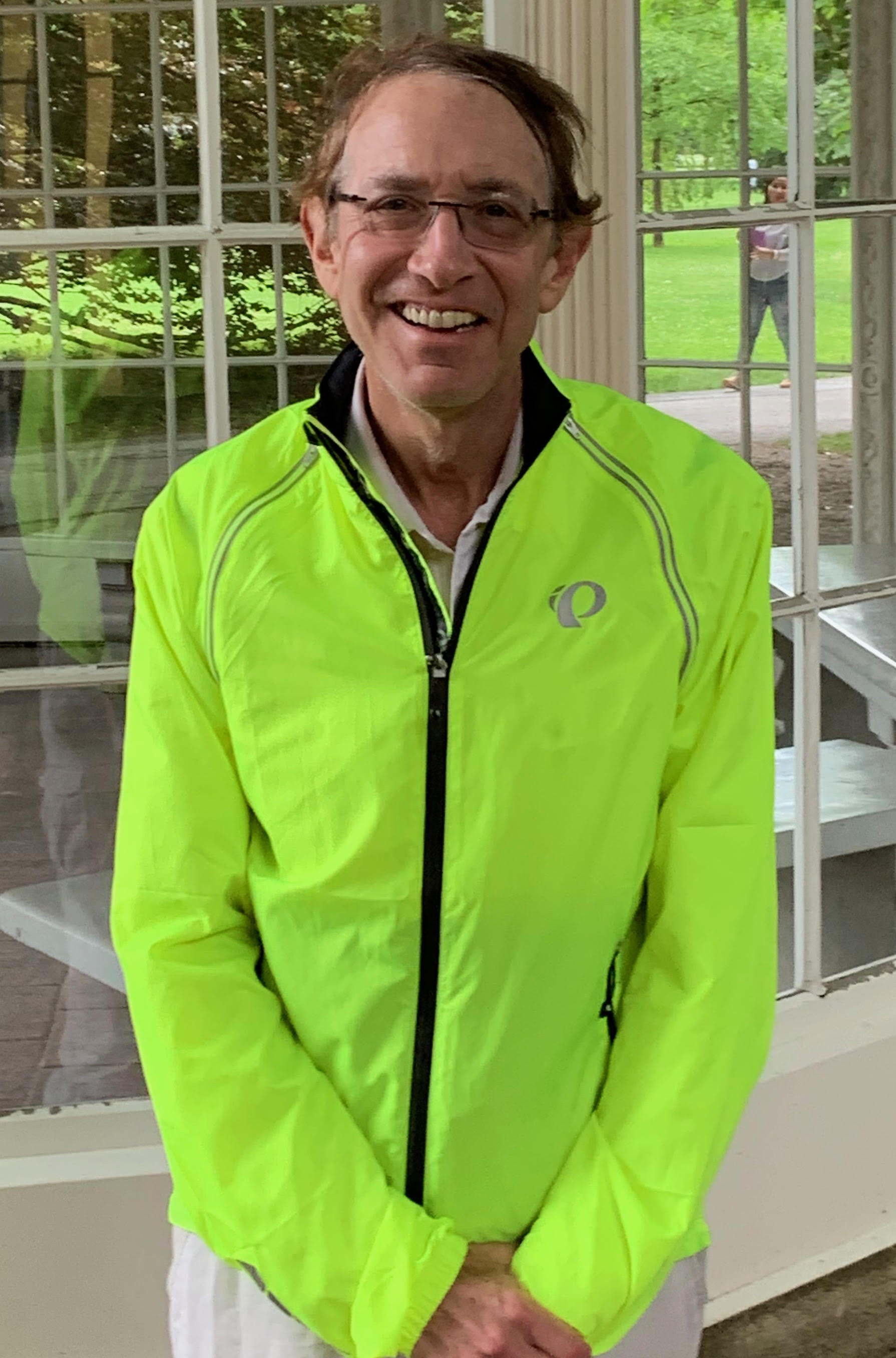 Professor Steve Charnovitz in 2019.